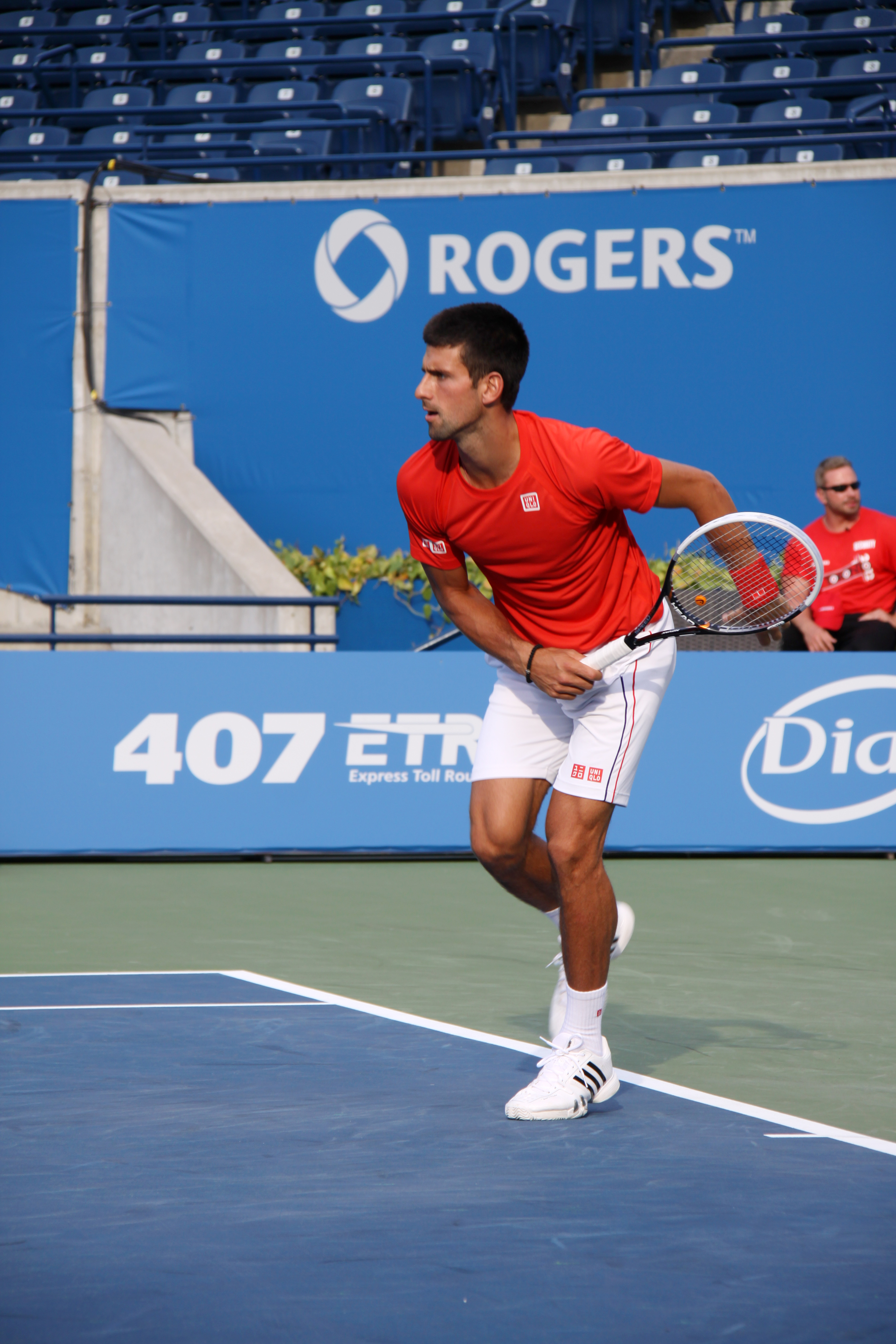 Novak Djokovic up close during practice session